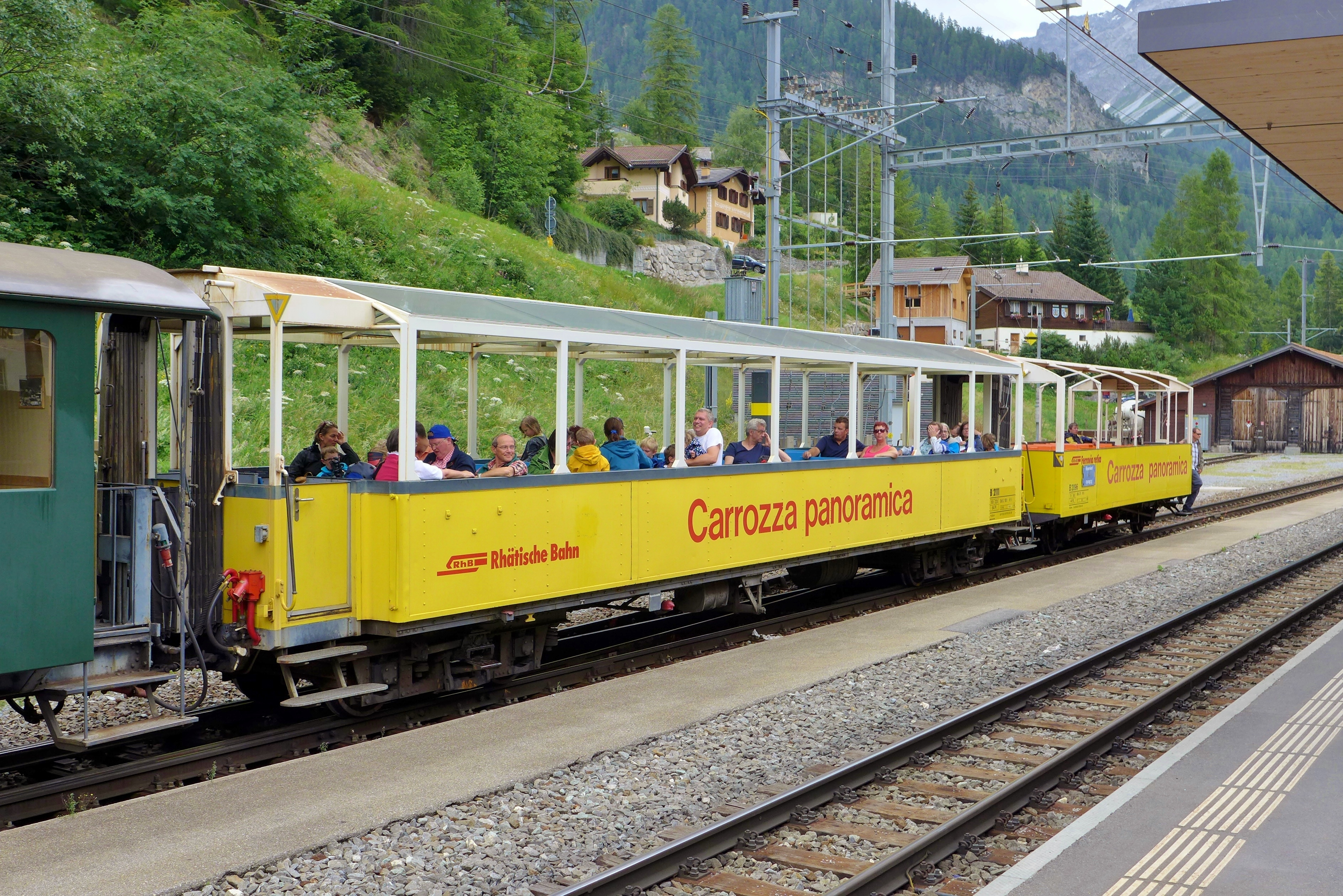 Rhaetian Railway Aussichtswagen (open viewing coaches) forming part of a heritage train at Bergün/Bravuogn railway station, Switzerland.